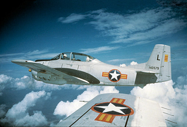 A U.S. North American T-28D Trojan wearing South Vietnamese markings, flying over Vietnam in the early 1960s.